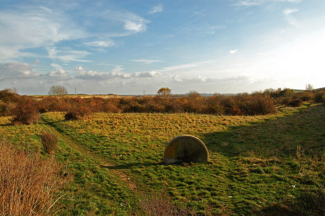 Greetwell Hollow Nature Reserve, Lincoln This is a lovely little area hemmed in on 2 sides by industrial units and a rapidly growing housing estate